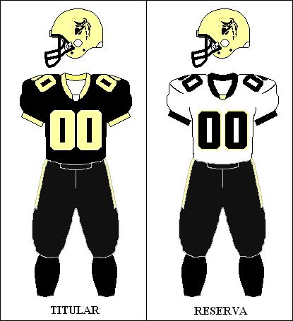 Jersey and equipment of Curitiba Predadores.